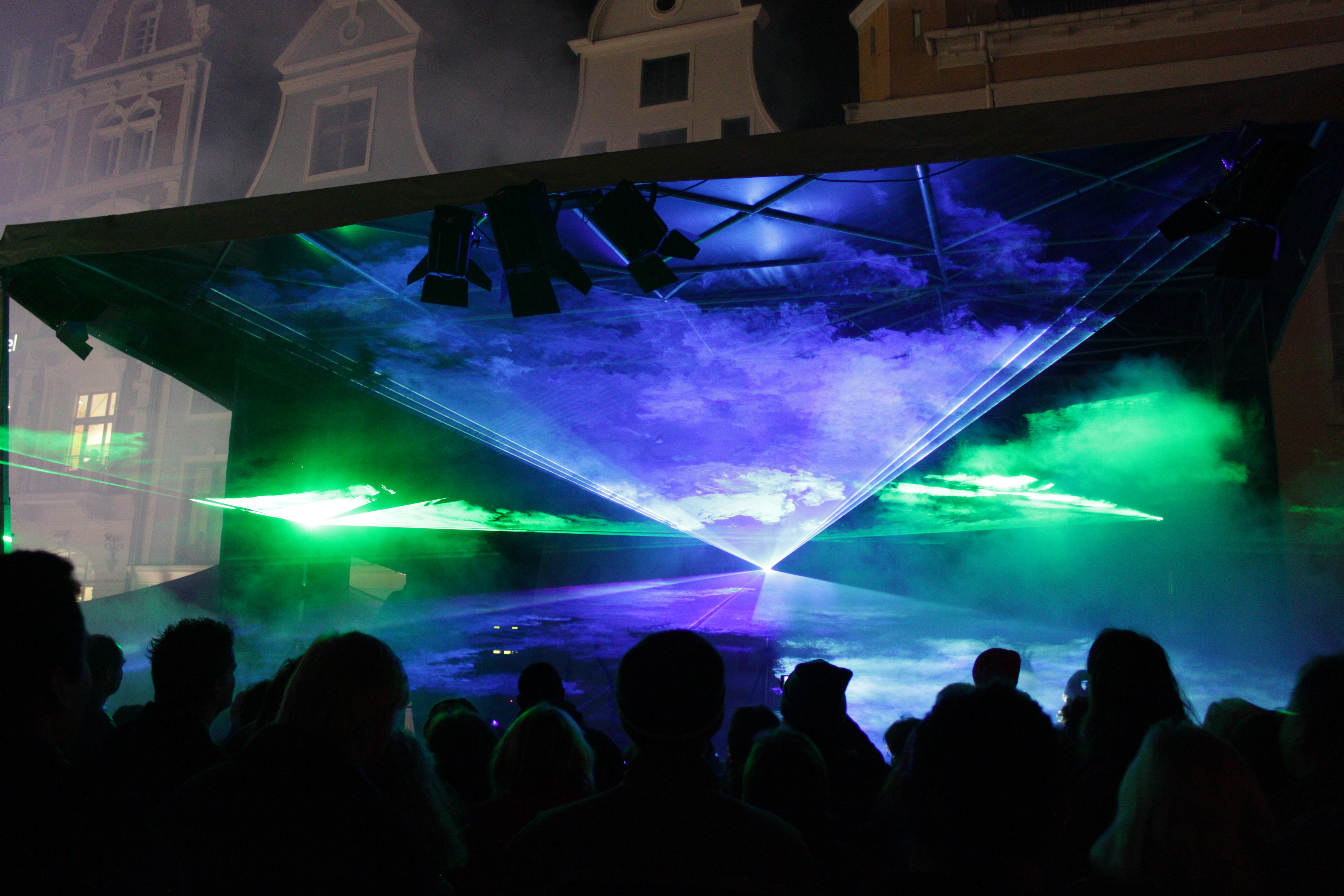 A laser light show during an annual fall event in Rostock, the "Rostocker Lichtwoche".